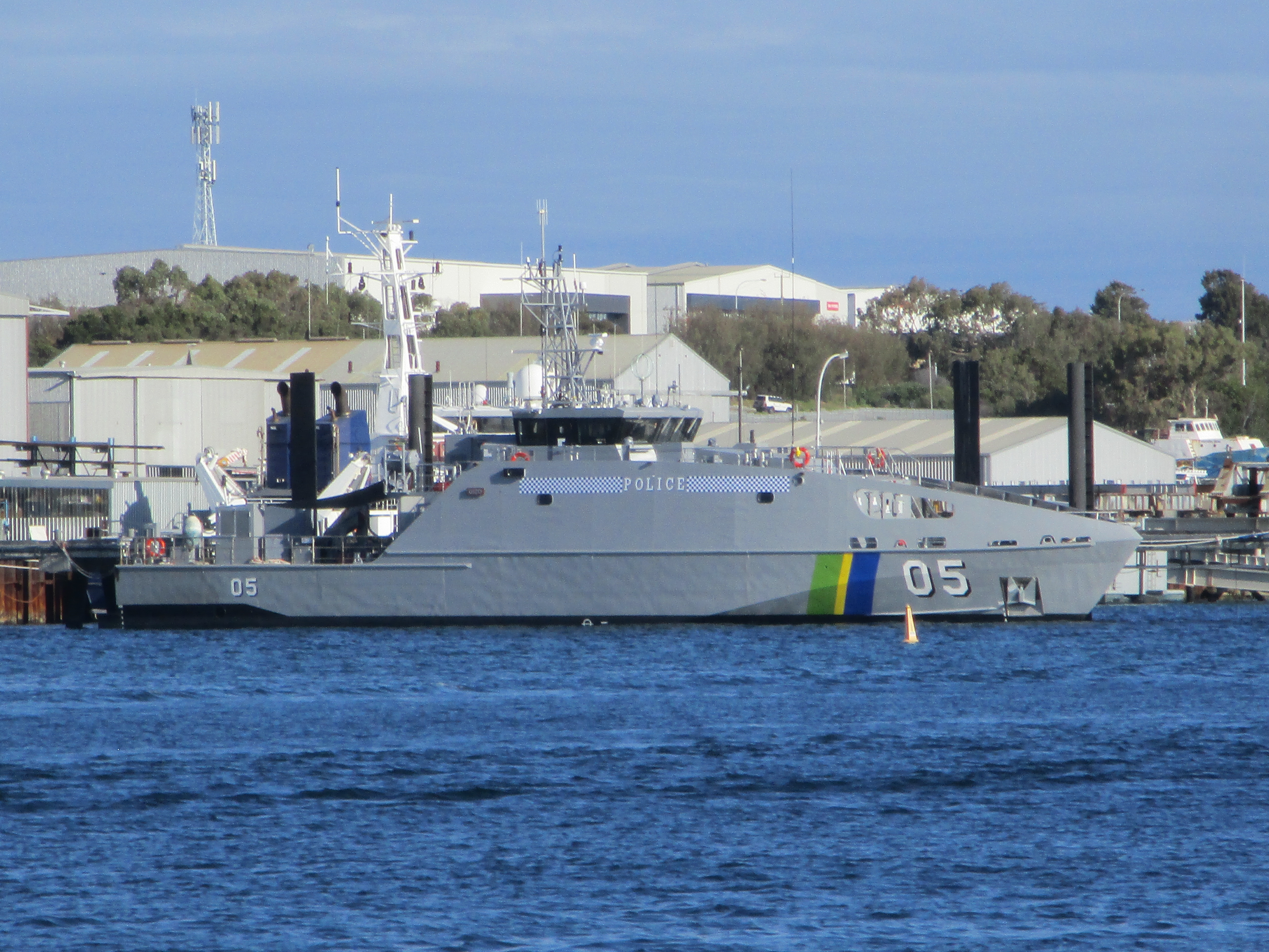 The RSIPV Gizo, a Solomon Island Guardian class patrol boat at Austal shipyards in Henderson, Western Australia.